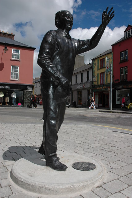 Statue of John B. Keane in Listowel, County Kerry, Ireland. The plaque below the statue reads 'John B Keane Playwright and Author 1928 - 2002'.